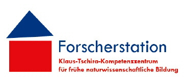 Official logo of Forscherstation, Heidelberg, Germany